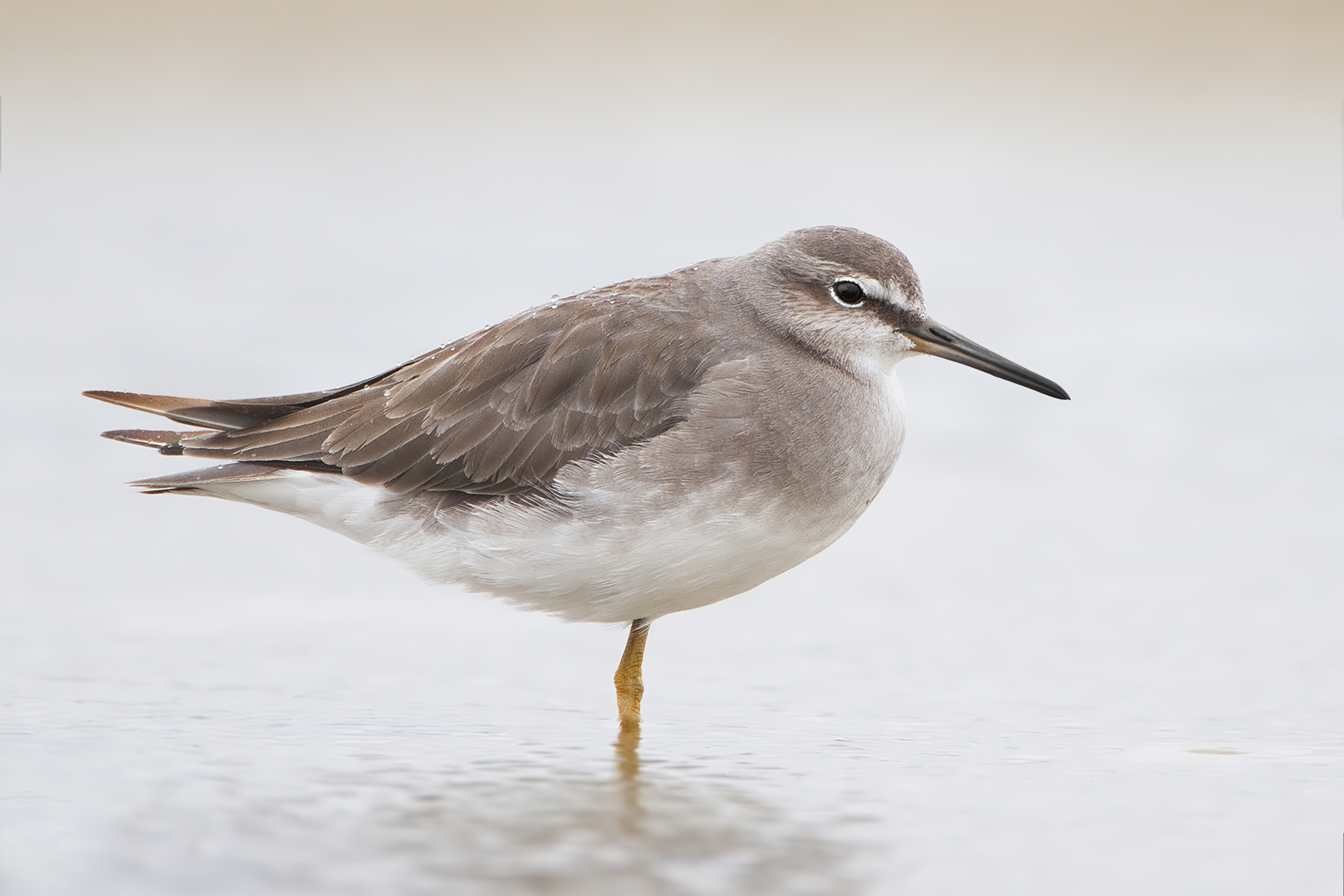 Grey-tailed Tattler (Tringa brevipes), Ralph's Bay, Lauderdale, Tasmania, Australia